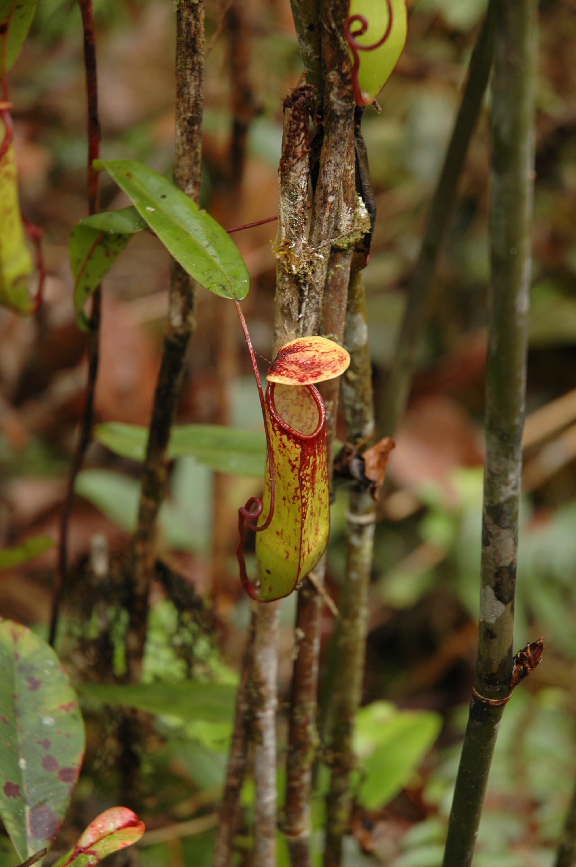 Nepenthes muluensis Gunung Murud by Jeremiah Harris